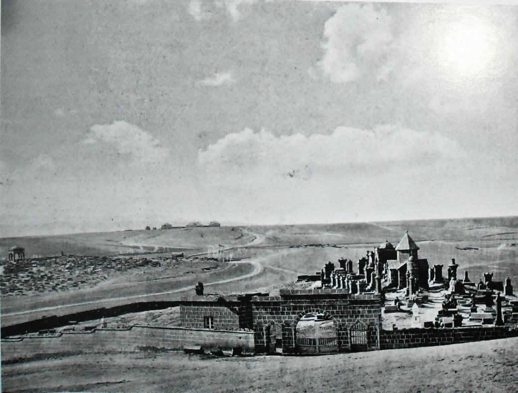 Patvo blur in Aleqsandrapol in 1880 year.